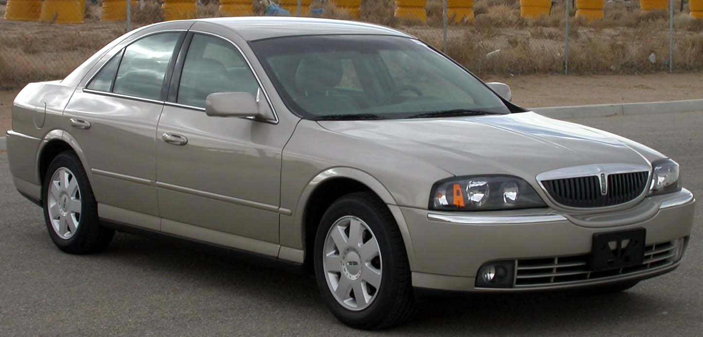 2004 Lincoln LS photographed in USA.